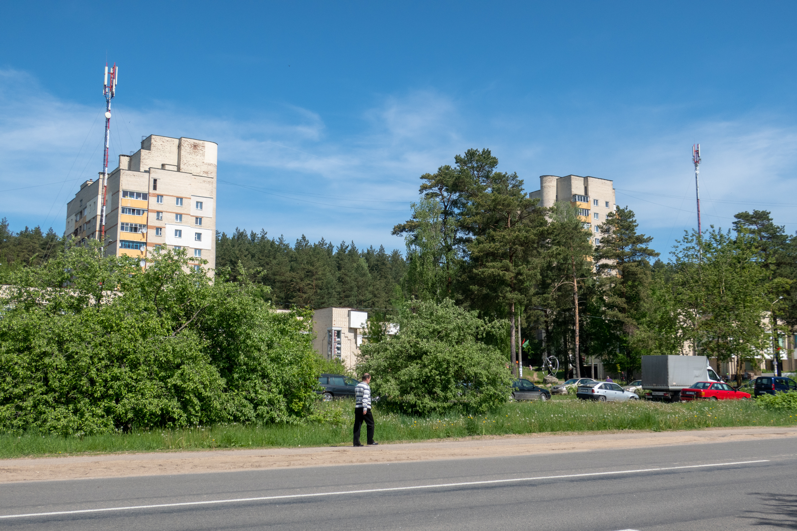 Sosny settlement (Minsk, Belarus)